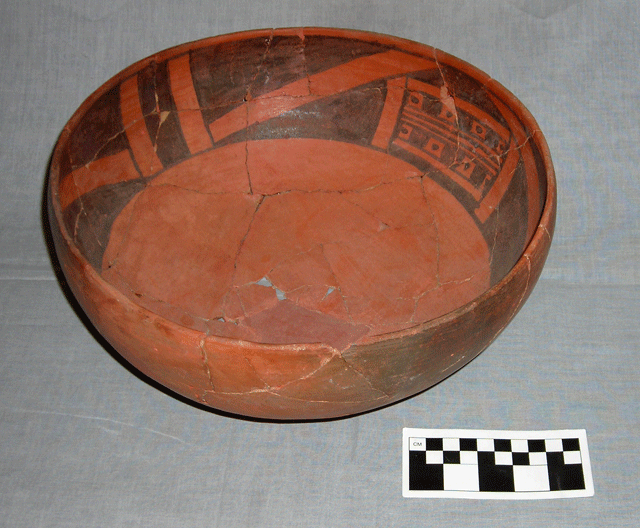 Agua Fria Glaze-on-red bowl from the collections of the Maxwell Museum, University of New Mexico. Small squares on scale are 1 by 1 cm.